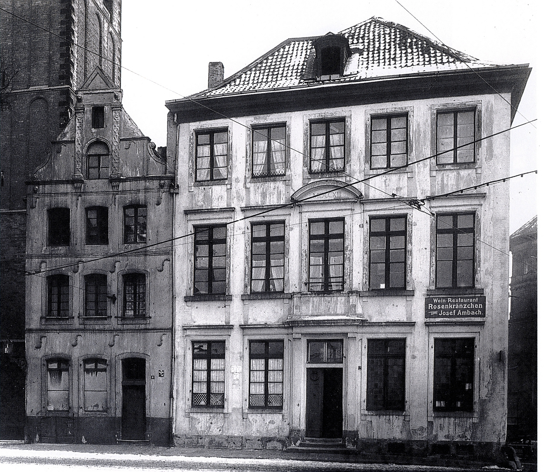 z